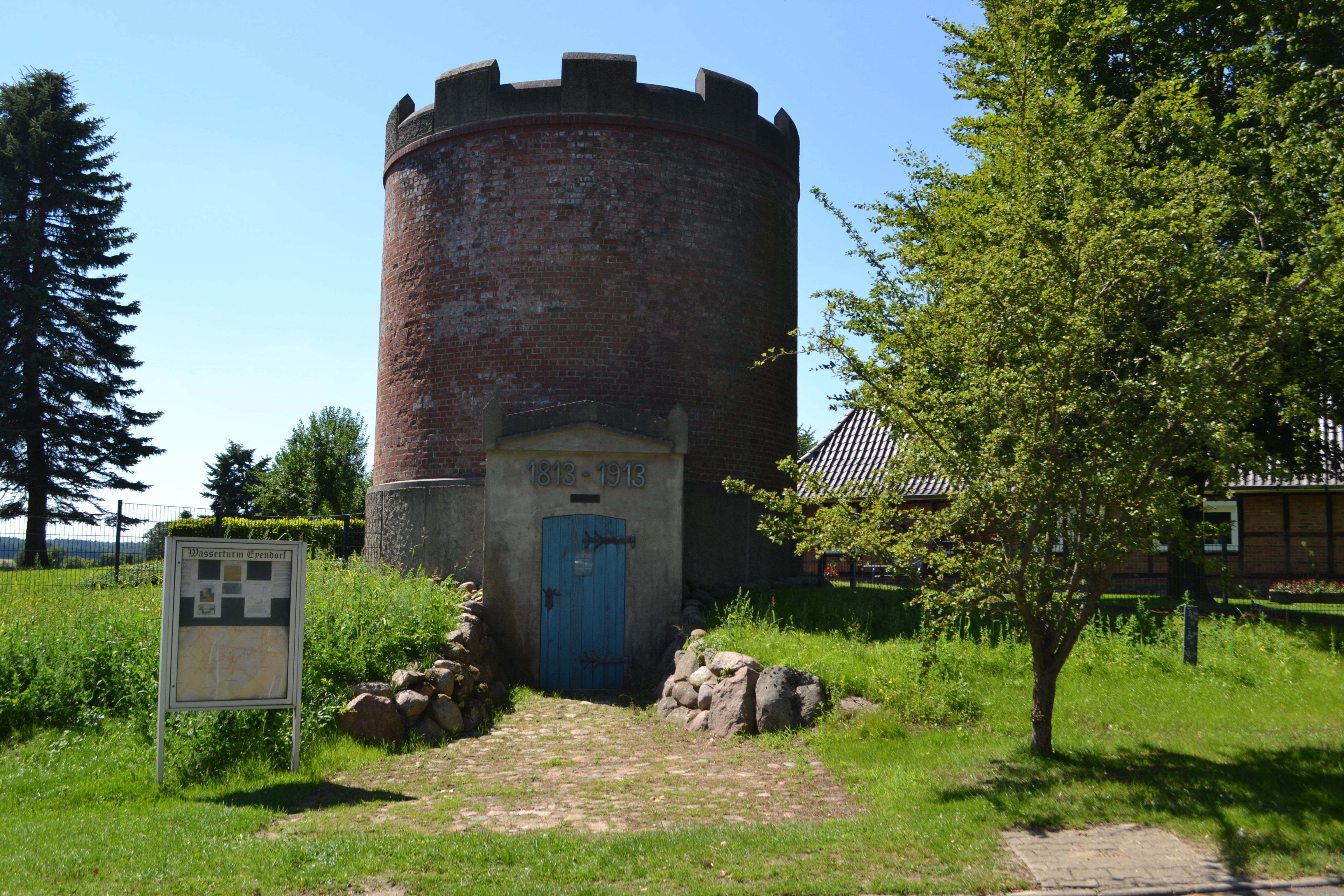 Water tower in Eyendorf, district Harburg, Lower Saxony